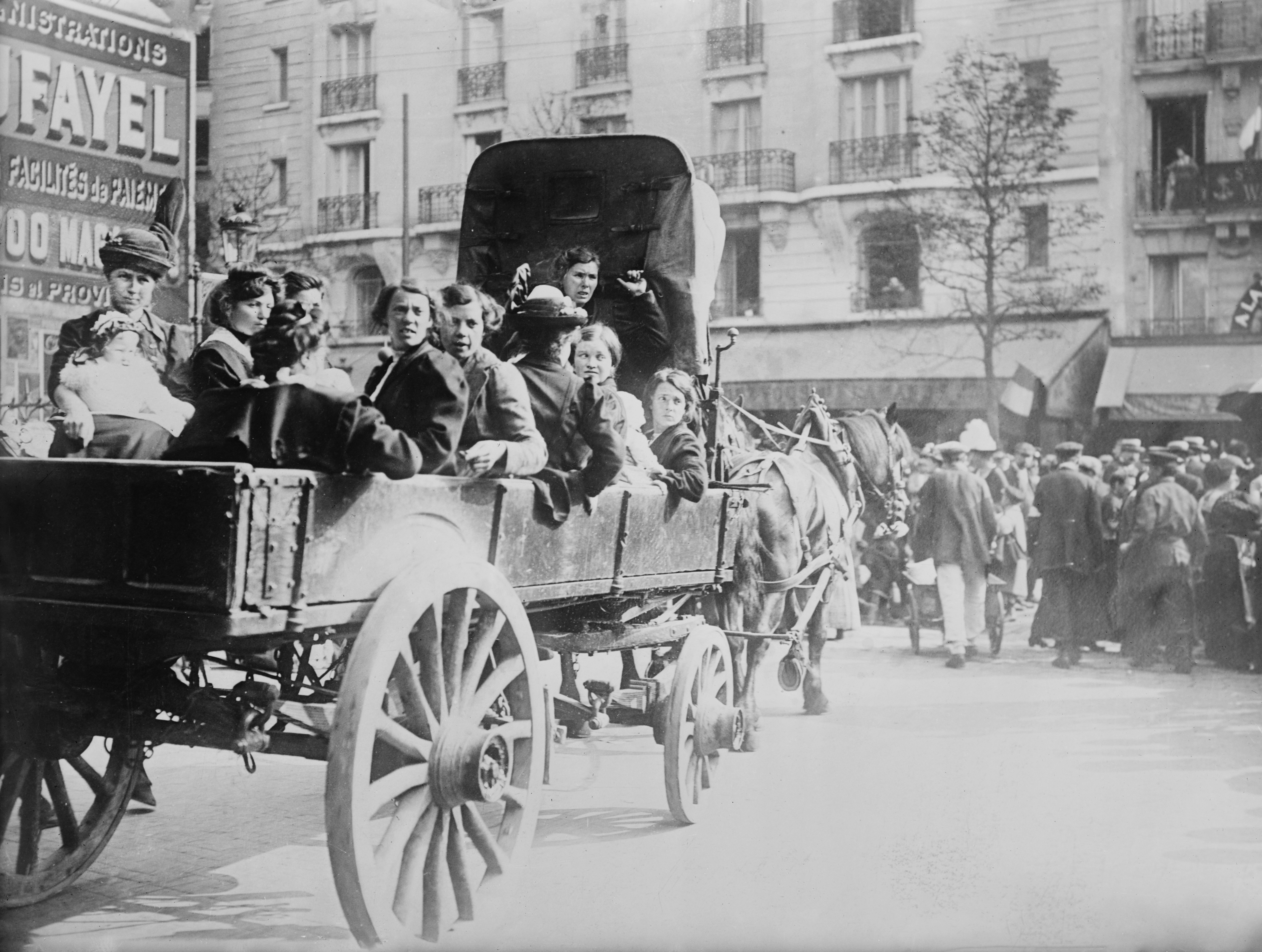 Refugees from Belgium in Paris.